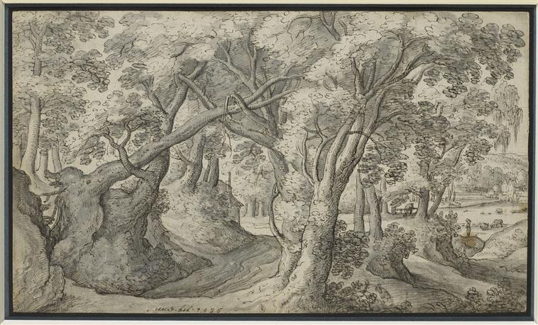 Mountainous landscape with the return of Jacob from Canaan